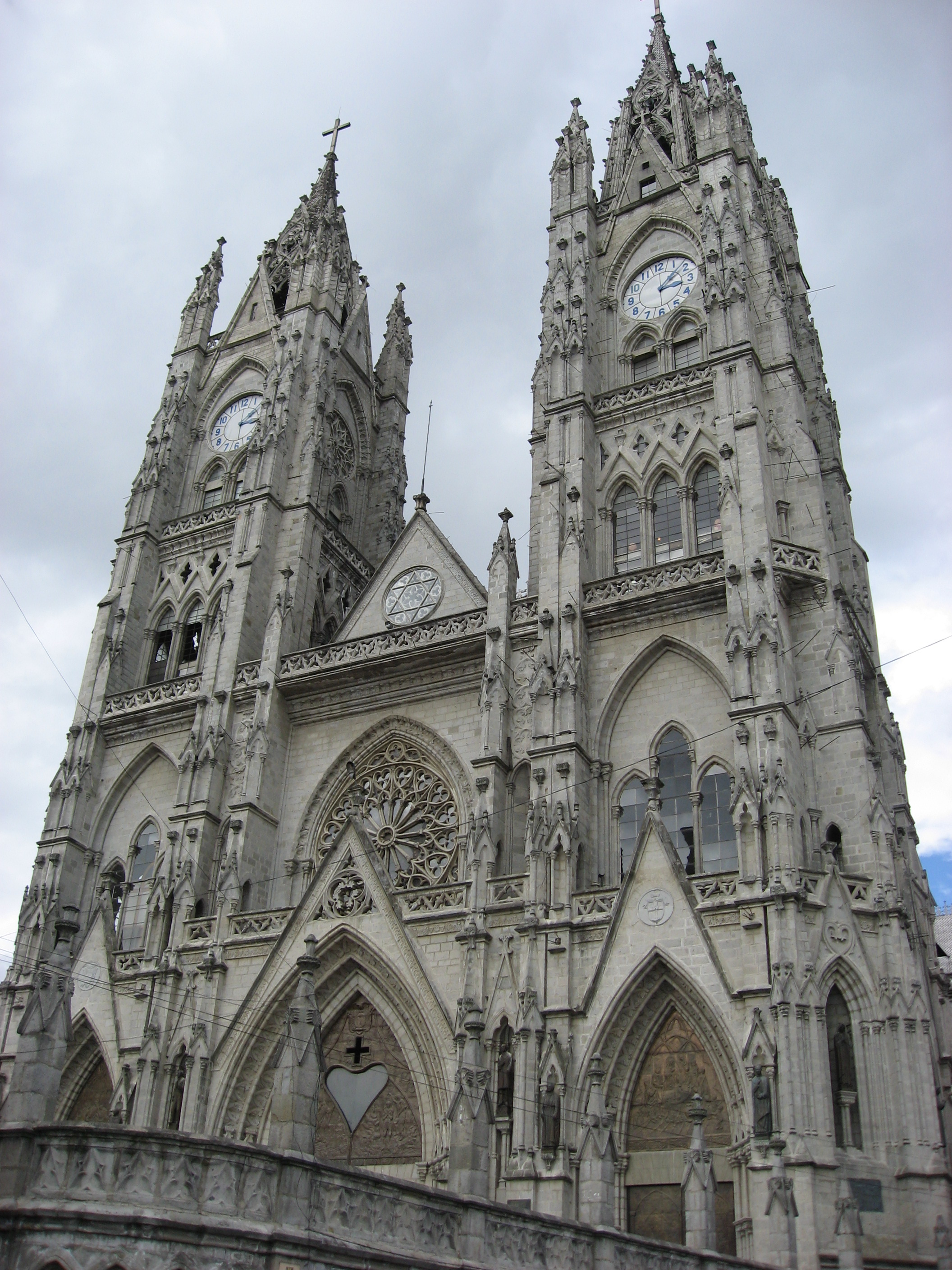 Basilica del Voto Nacional, en Quito Ecuador